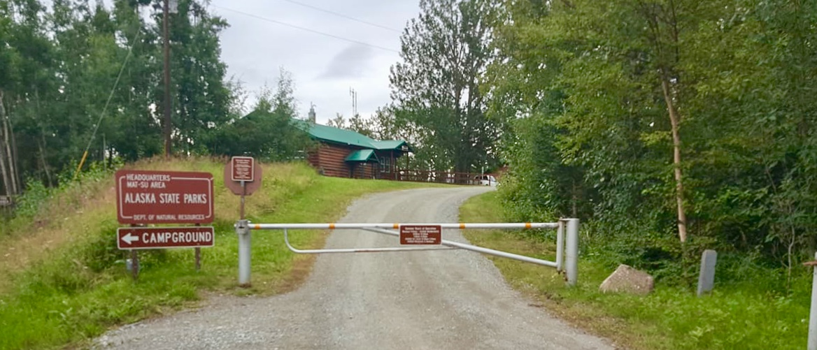 Alaska State Parks Headquarters for the Matanuska-Susitna region, Finger Lake State Recreation Area, near Palmer, Alaska